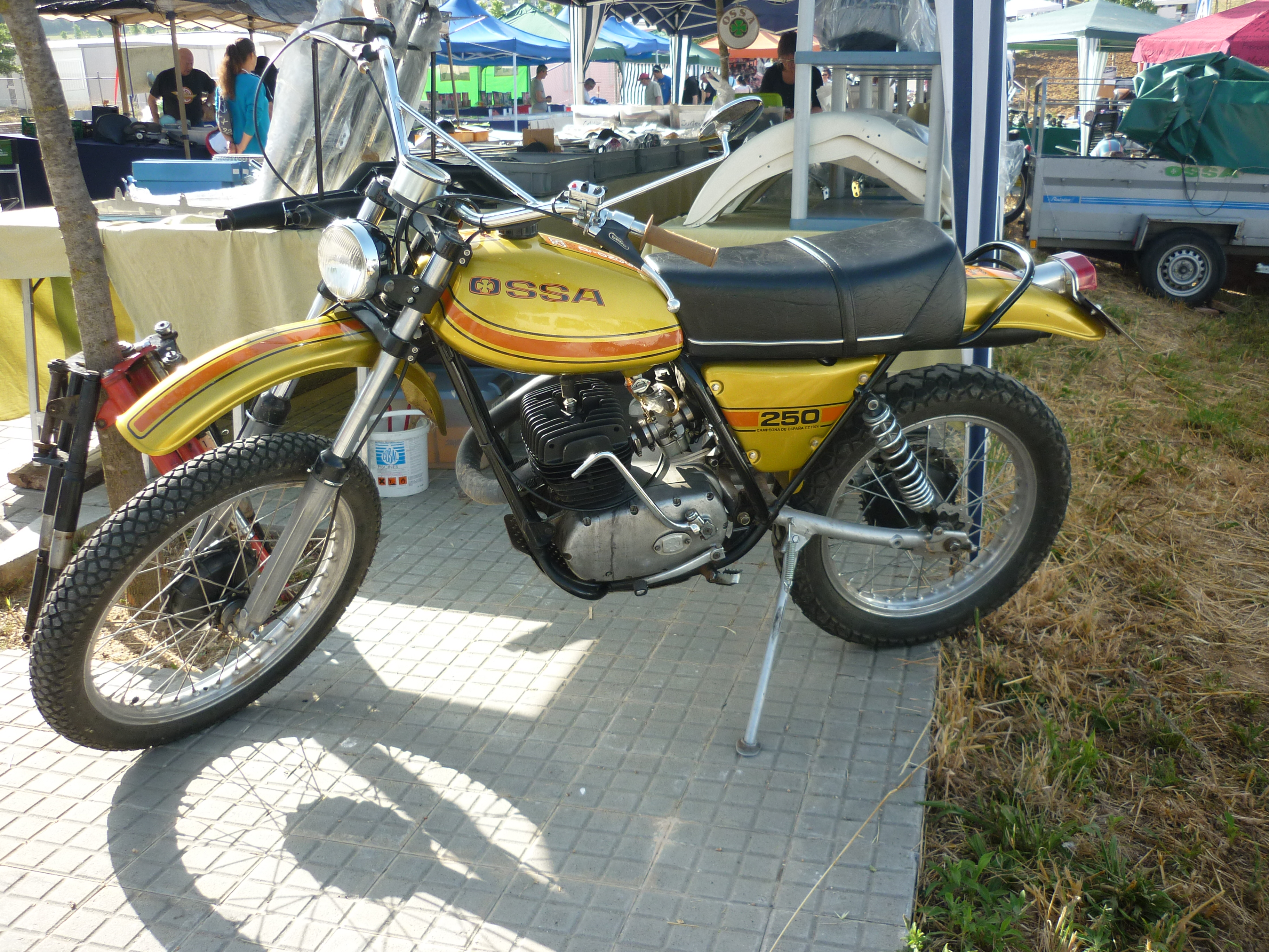 OSSA 250 Super Pioneer, 1975